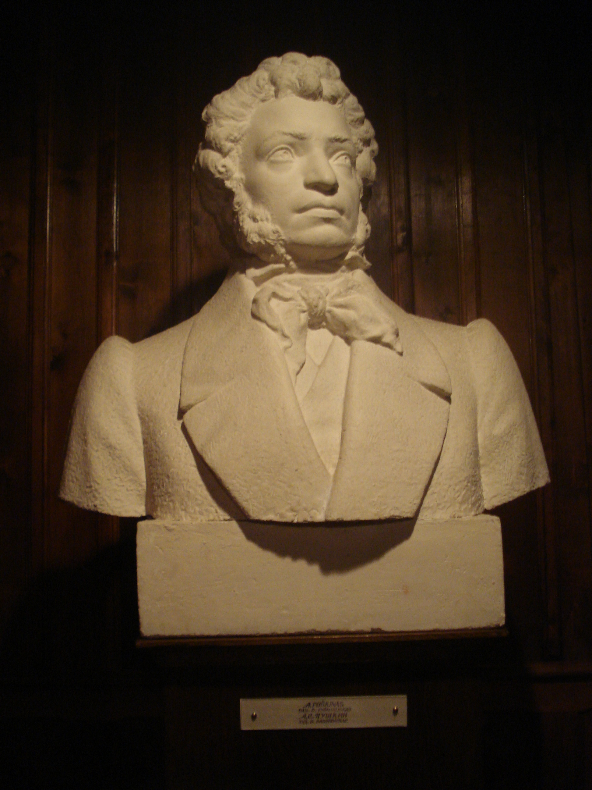 Bust of A. Pushkin in the Literary museum of A. Pushkin in Markučiai, Vilnius by sculptor Bronius Vyšniauskas.